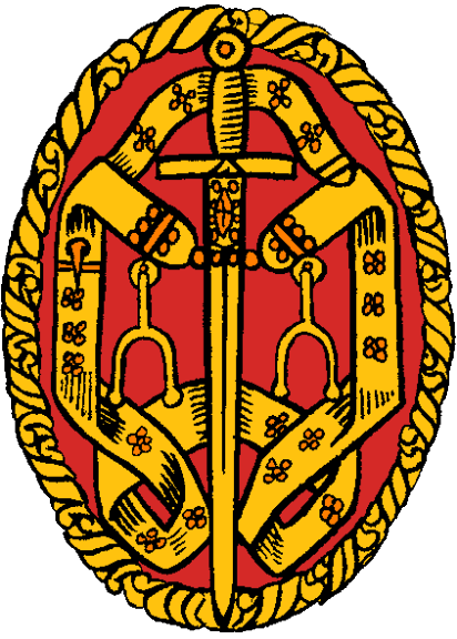 The badge of a British knight bachelor, created in 1926 on the orders of H.M. King George. The badge was created on the orders of HM King George in 1926. Upon an oval medallion of vermilion, enclosed by a scroll a cross-hilted sword belted and sheathed, pommel upwards, between two spurs, rowels upwards, the whole set about with the sword belt, all gilt.